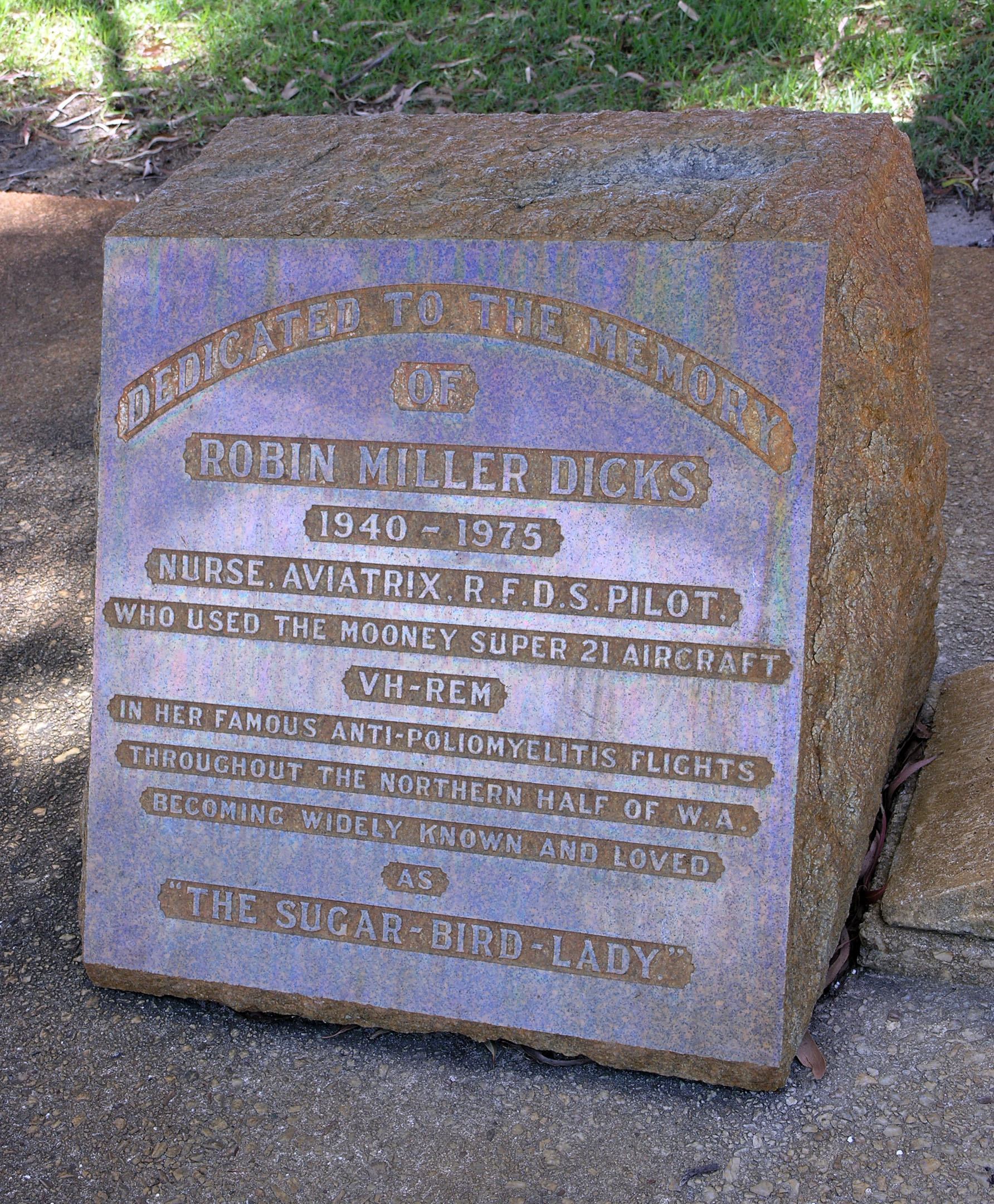 Memorial in Jandakot airport, perth WA to "The Sugar Bird Lady", Robin Miller Dicks. Taken by me SeanMack. Robin Miller Dicks (1940-1975) was a Flying Nurse Pilot whose work for the Aborigines gained her the name of ‘Sugarbird Lady’. She was only 35 when she died of cancer [1]